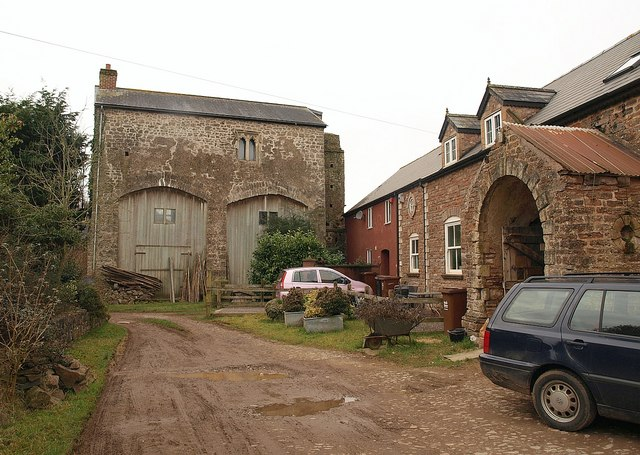 Gatehouse, Canonsleigh Part of the remains of the Augustinian abbey is this C15 gatehouse; "an interesting relic of monasticism although its poor state of preservation creates concern over its future" . Noticed while trying to find Burlescombe Footpath 26, which is inadequately waymarked, and does not run where shown on the maps. Clue: look for the incredibly muddy gateway.